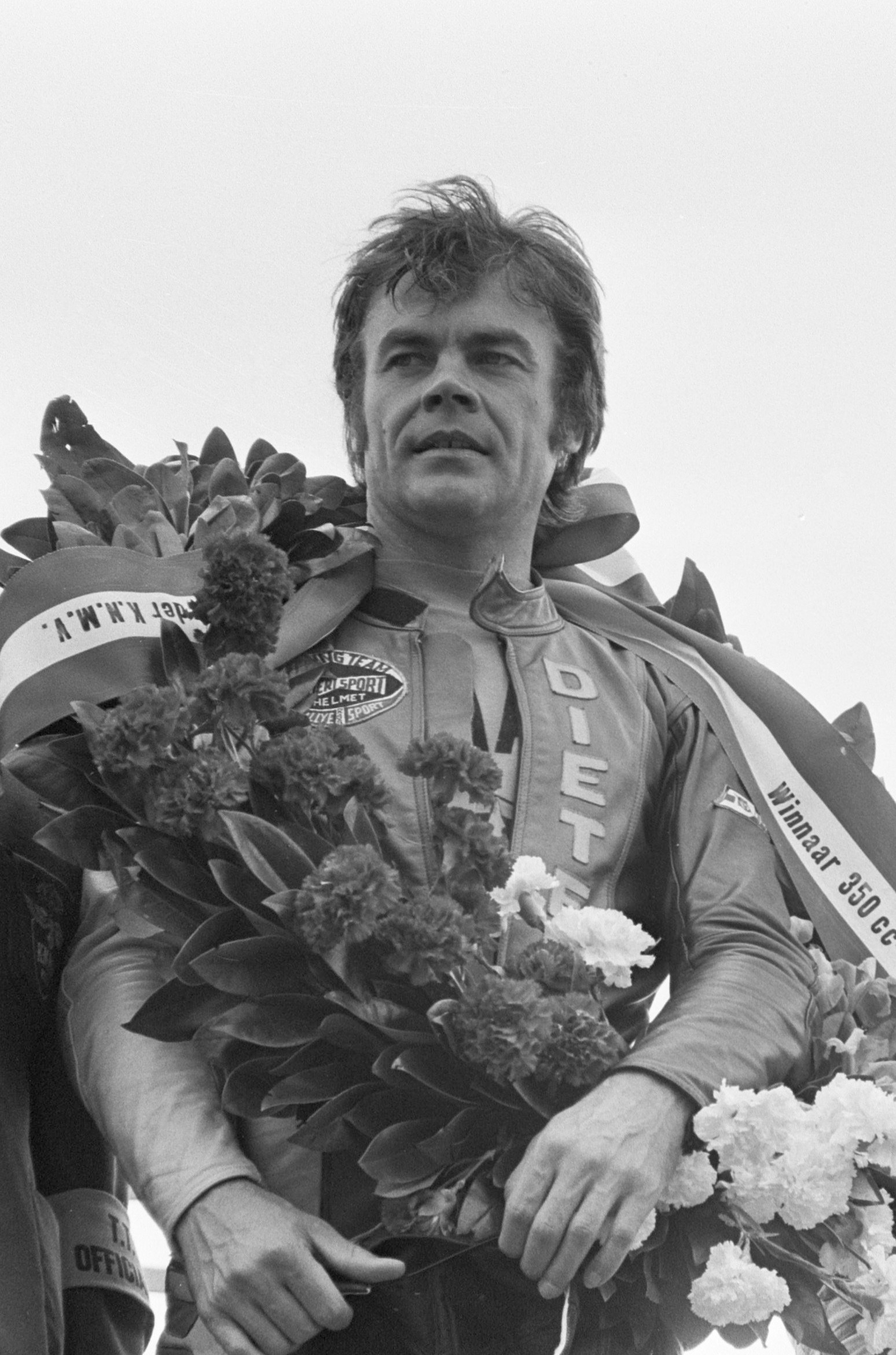 Winnaar 350 cc Dieter Braun